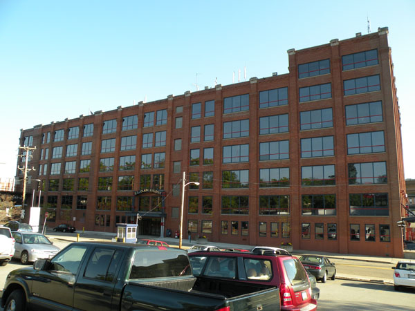 Picture of the D. L. Clark Building, located at 503 Martindale Street in the North Shore neighborhood of Pittsburgh, Pennsylvania, on October 9, 2010.